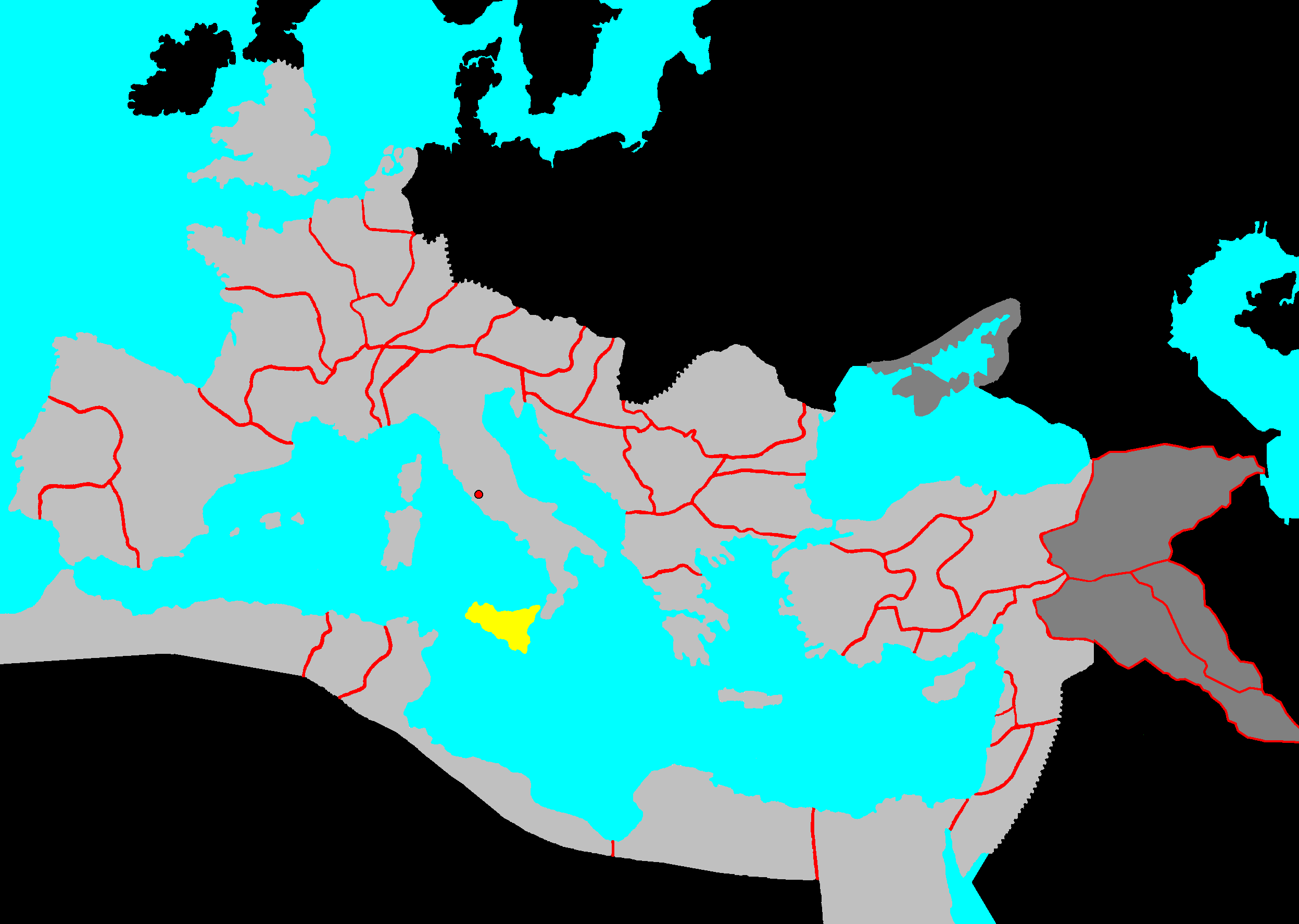 Description: provinces of the Roman Empire (Imperium Romanum) Source: own work Date: December 2005 Author: --Immanuel Giel 11:21, 13 December 2005 (UTC) Other versions: none